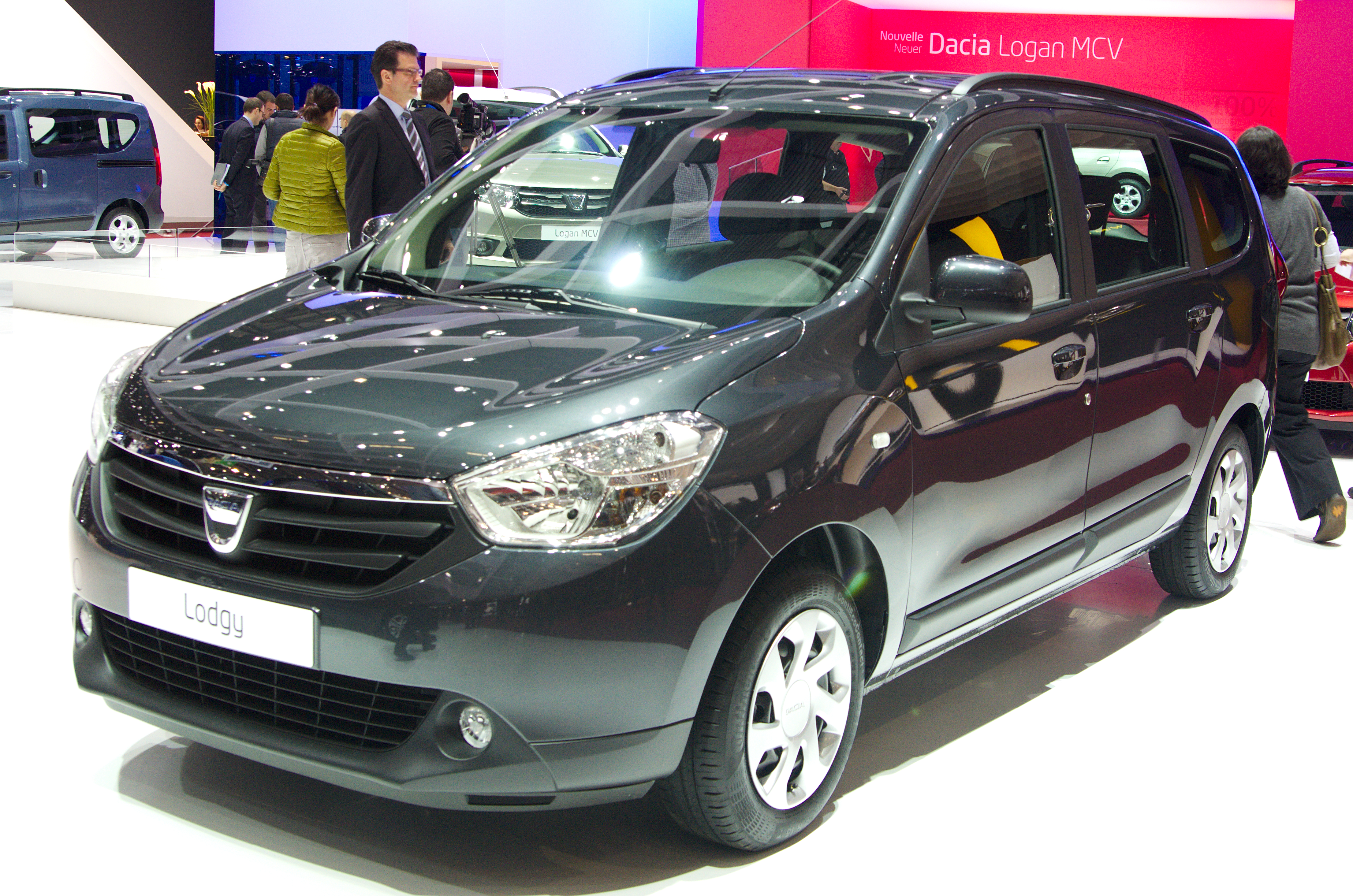 Geneva MotorShow 2013 - Dacia Lodgy